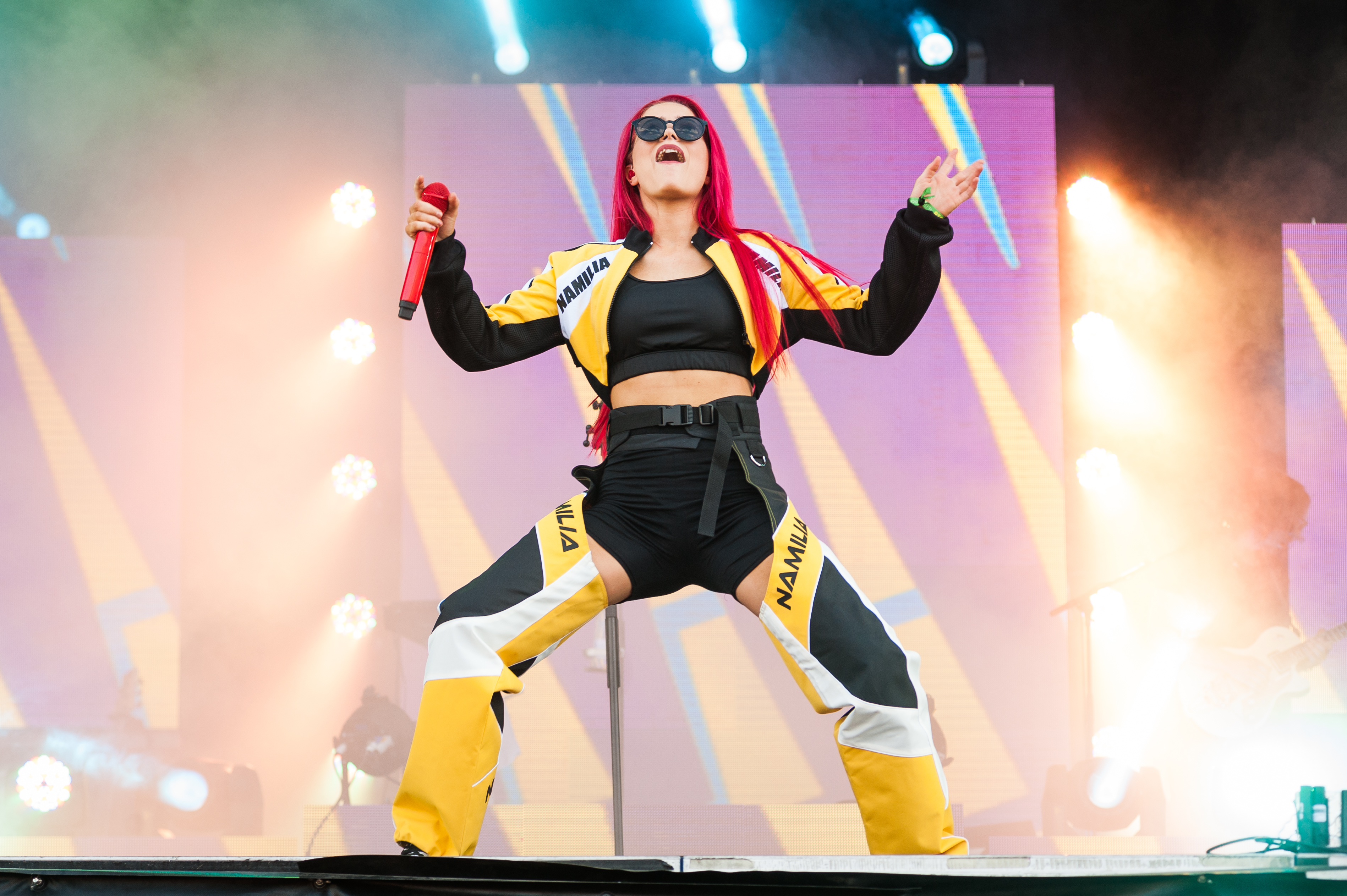 Finnish singer Sanni performing at the 2018 Ilosaarirock festival in Joensuu, Finland.